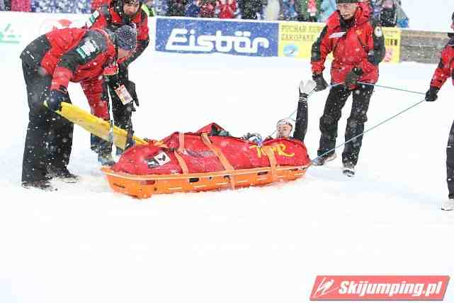 Adam Małysz during sunday competition of FIS Ski Jumping World Cup in Zakopane, 2011, in which he fell